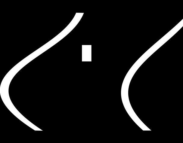 Screenshot Autoslalom Philips Tele-Spiel ES 2201